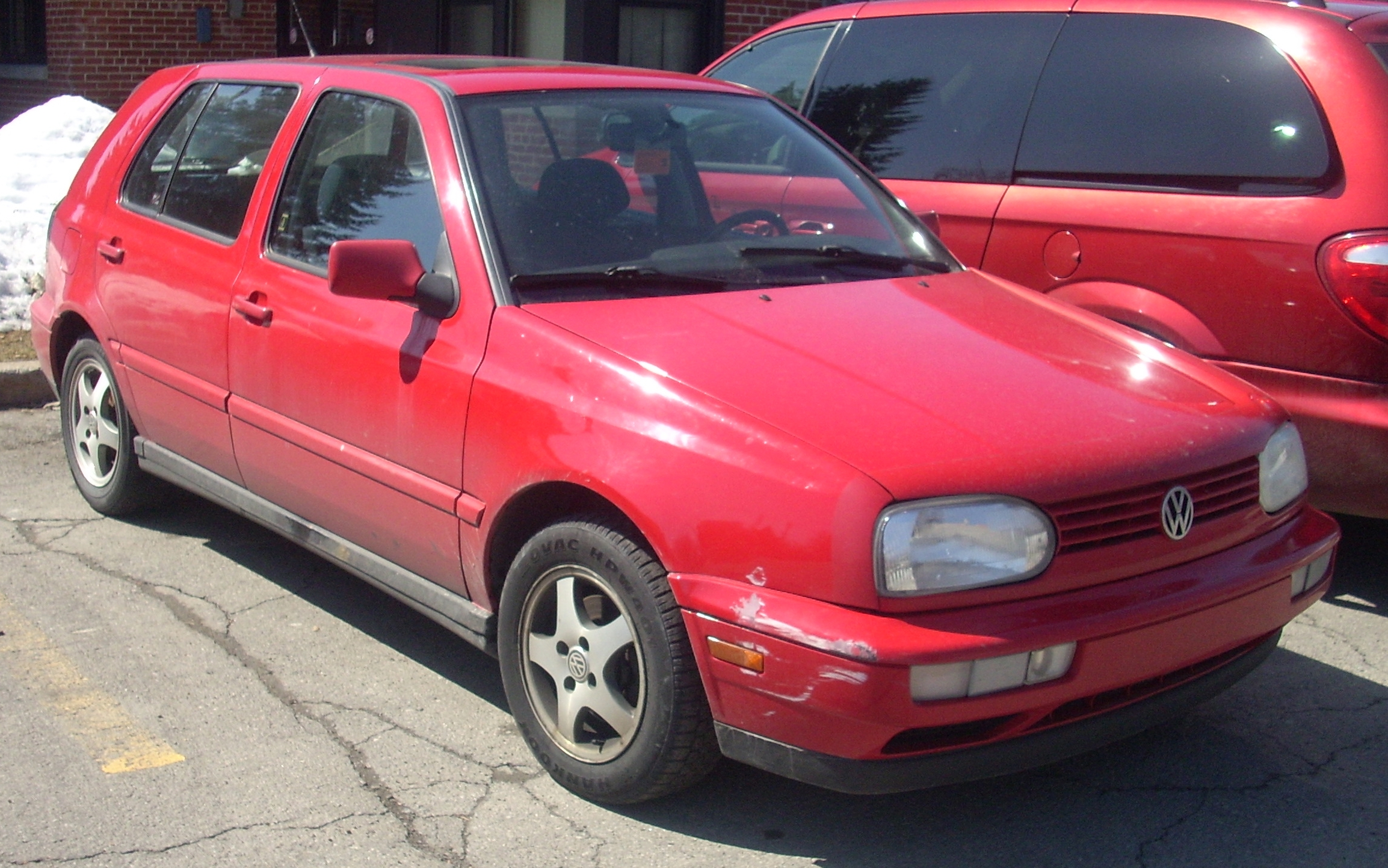 Volkswagen Golf photographed in Montreal, Quebec, Canada.